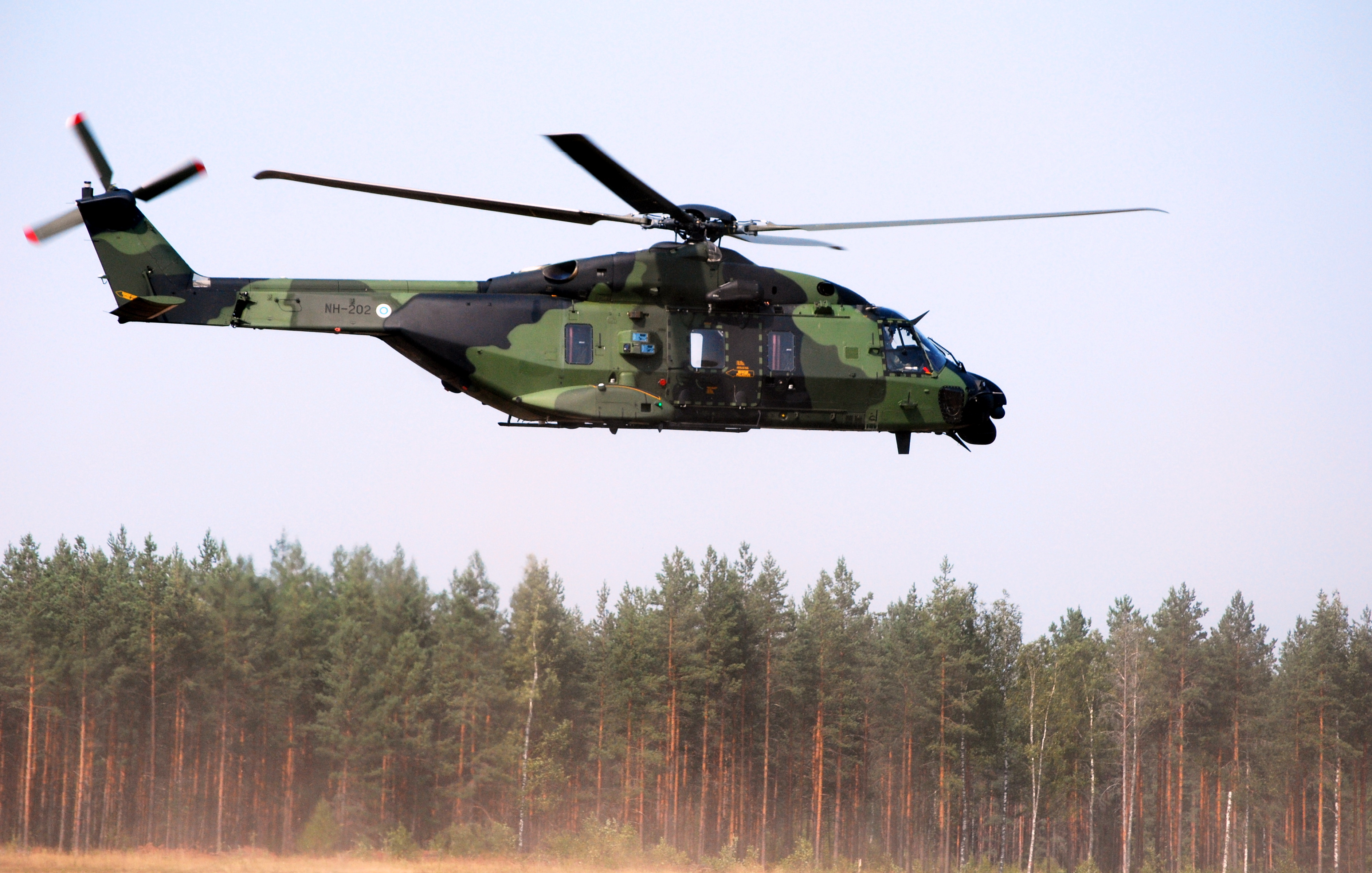 NH Industries helicopter NH-90 of the Finnish Army.